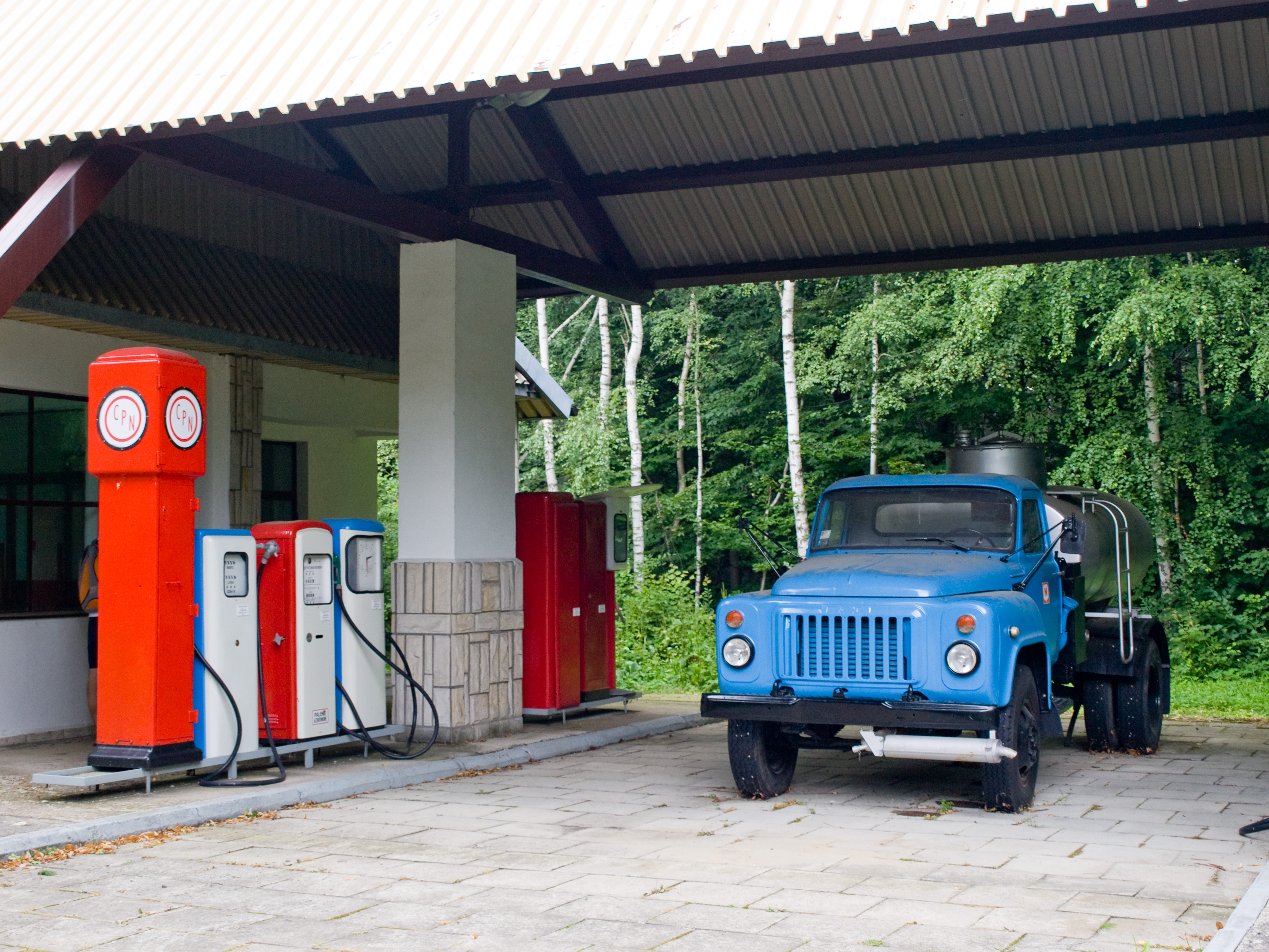 Technical museum, Bóbrka, Subcarpathian Voivodeship